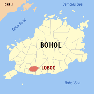 Map of Bohol showing the location of Loboc